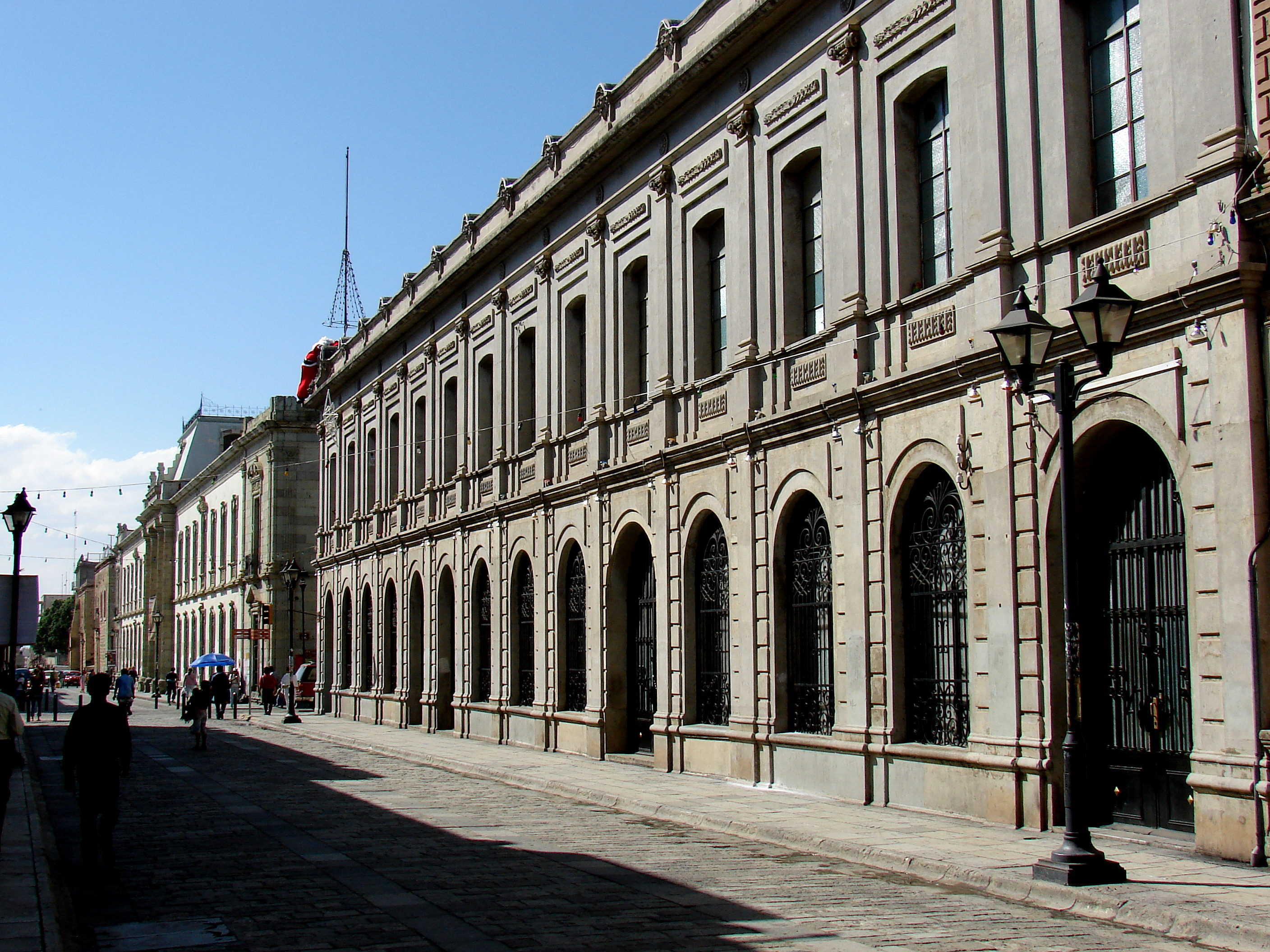 A street of Oaxaca city, Mexico.